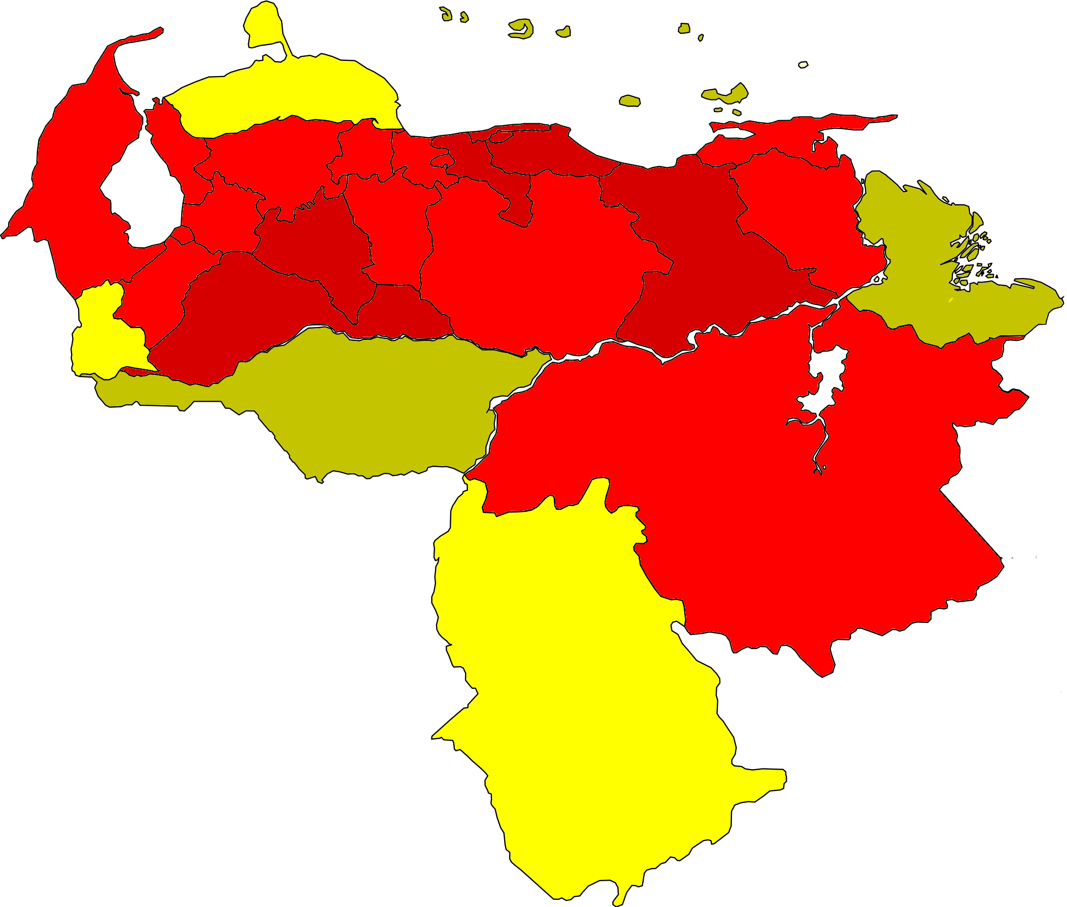 Presidential election results map. Red denotes states won by Chávez, Yellow denotes those won by Salas Römer.